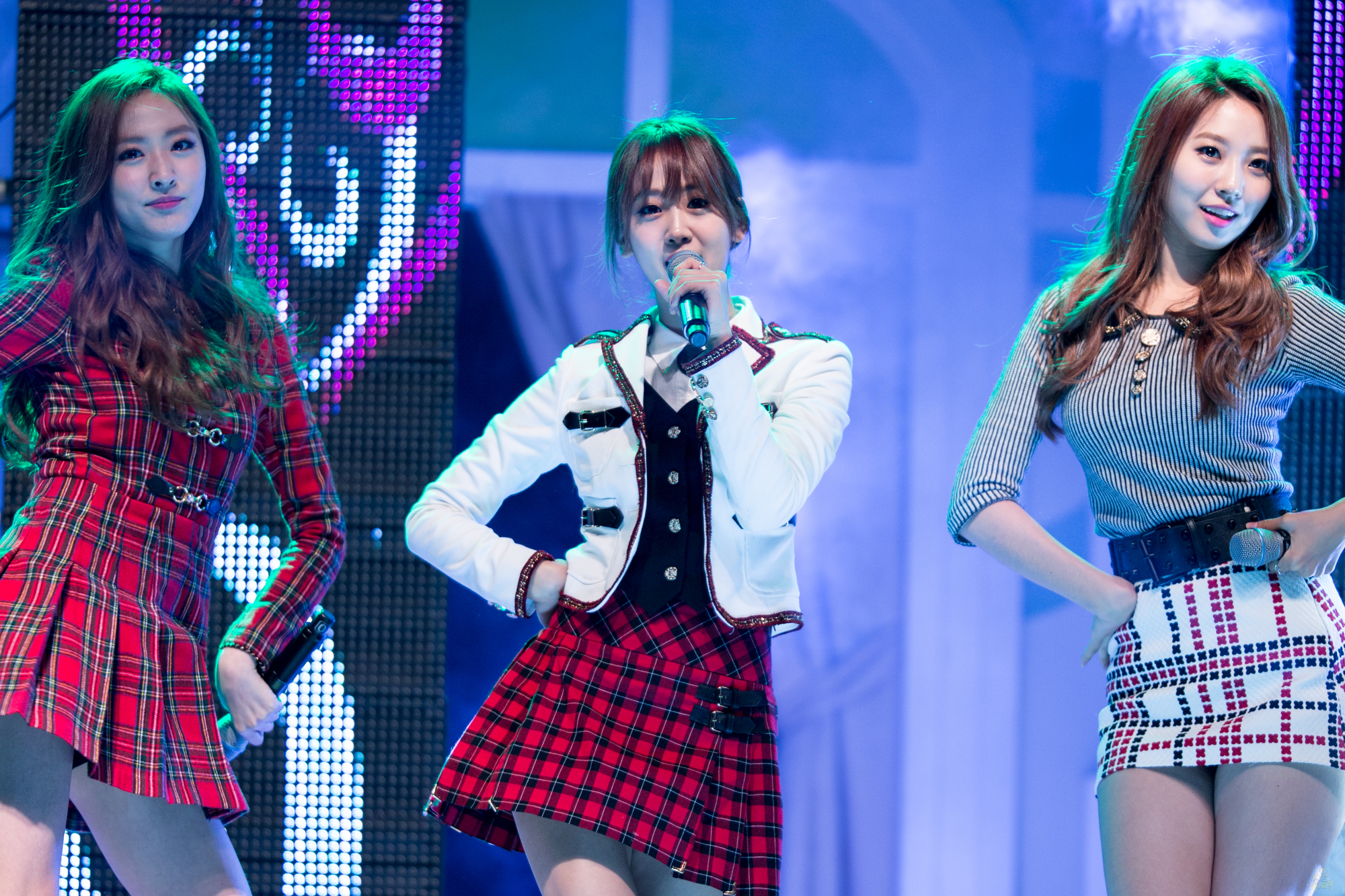 BESTie at Multicultural Concert, 5 November 2014. Left to right: Haeryung, Hyeyeon, Dahye.